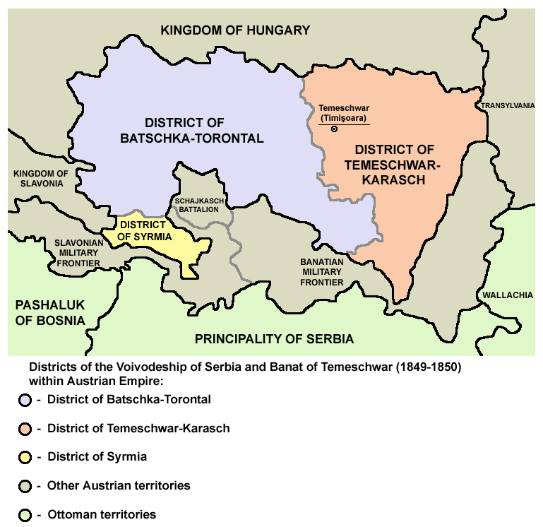 Disctricts of the Voivodeship of Serbia and Banat of Temeschwar (1849-1850).